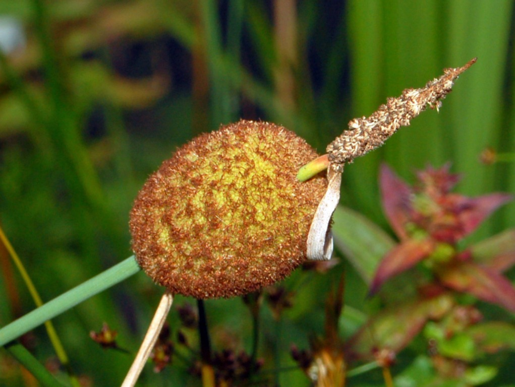 Typha minima - Pratorondanino, Genova, Italy